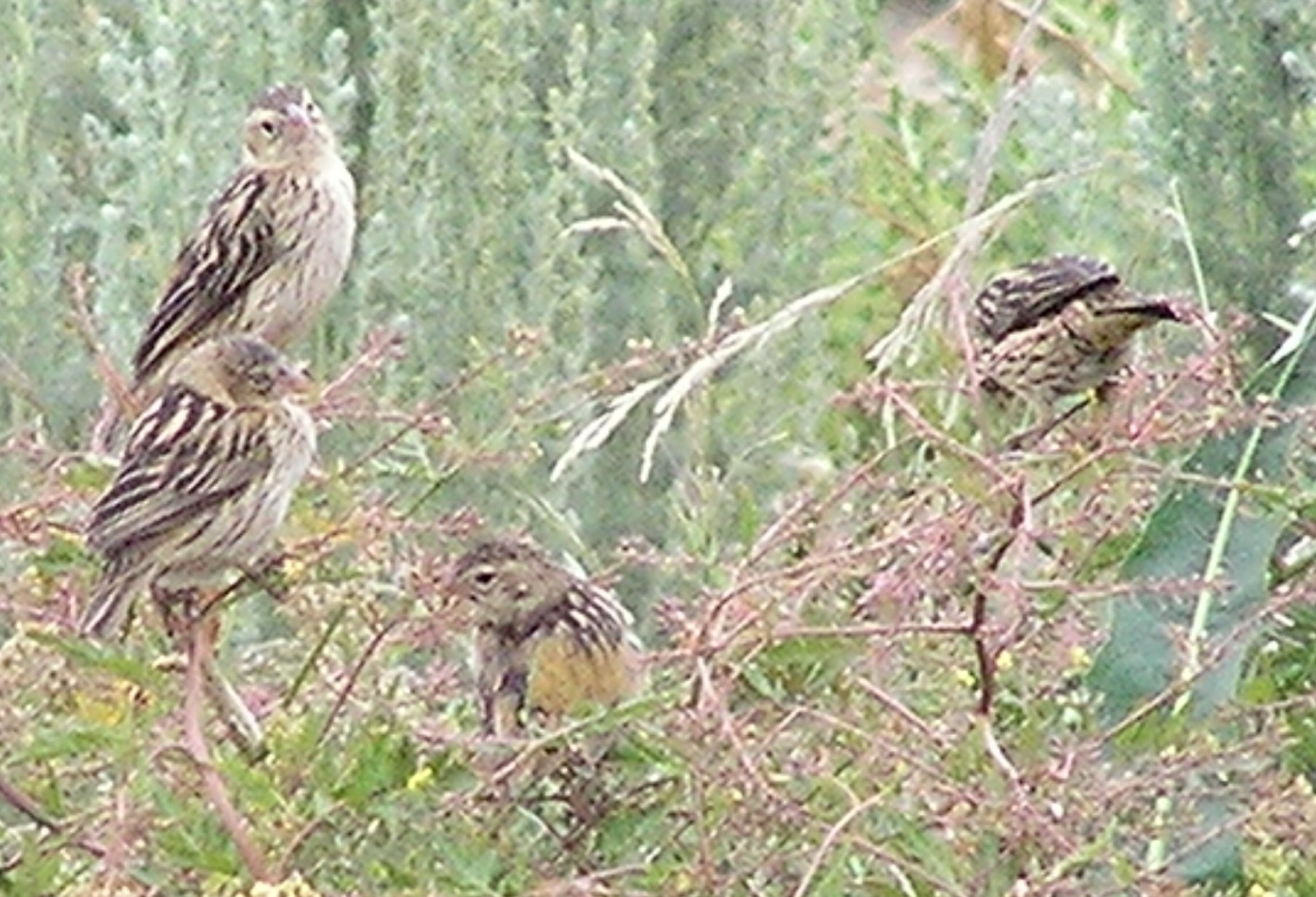 Juvenile Yellow Bishops at Debre Berhan, Ethiopia